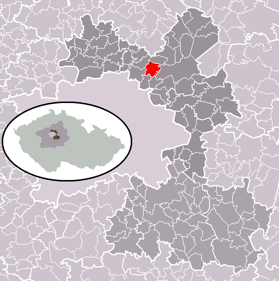 Location of Brázdim municipality within Prague-East District and administrative area of Brandýs nad Labem-Stará Boleslav as a Municipality with Extended Competence.